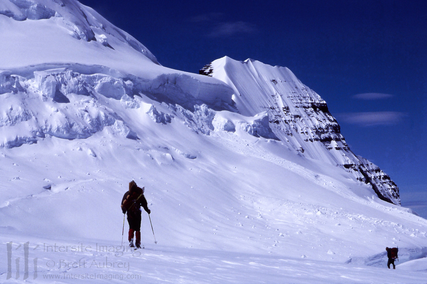 North Twin and Twins Tower, on our way to South Twin; Vic and Doug skiing.